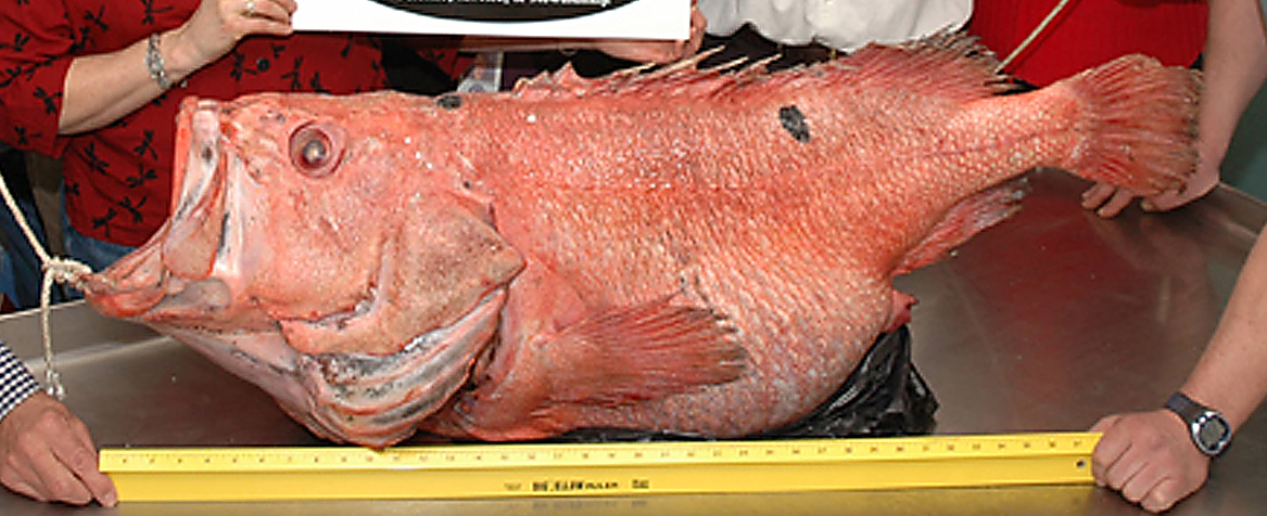 Greetings from Alaska Fisheries Science Center (AFSC) in Seattle, Washington. Pictured here is one of the largest Shortraker Rockfish ever seen. This Shortraker Rockfish was caught in a commercial fishing net in the Bering Sea in the winter of 2007, then frozen and donated to AFSC for research. The fish weighed in at 62 pounds and was measured at 112 centimeters (44.1 inches). Scientists with the AFSC Age and Growth Lab took otoliths (ear bones) from the fish to determine its age. After viewing the otoliths under a microscope, it was determined that the age of the fish was between 90 to 115 years old. Pictured with the now famous fish are several Science Center staff. From left: Jerry Berger, Dan Foy, Glenn Campbell, Karen Teig, Charles Hutchinson, Susan Mcdermott, Brian Mason, Allison Barns, and Olav Ormseth.